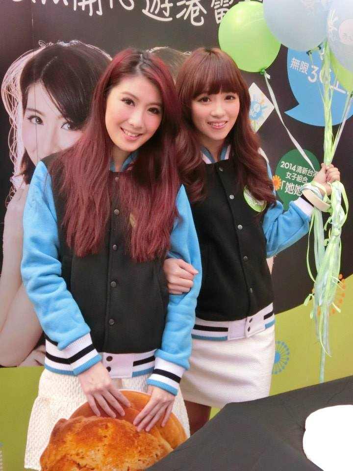 TaTa